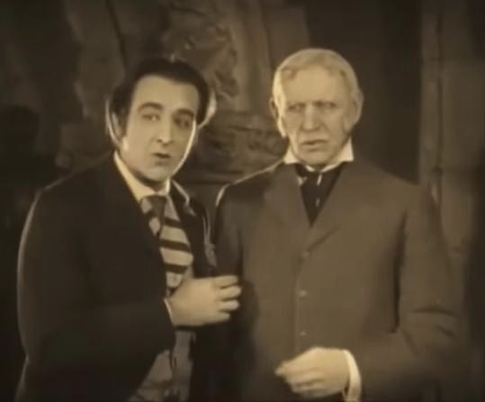 Fred Malatesta (left) & Joseph J. Dowling in Little Lord Fauntleroy (1921) - cropped screenshot